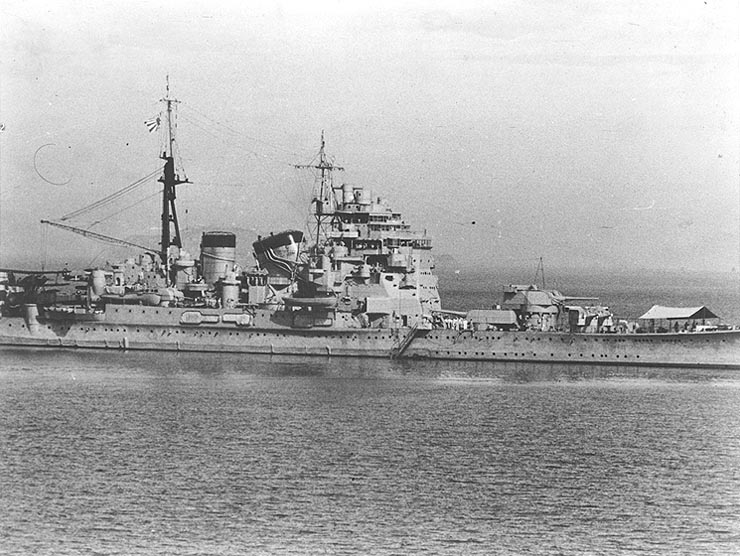 Chokai (Japanese Heavy Cruiser, 1932) View of the ships starboard side from just aft of the bow to the aircraft catapults, circa 1938. Probably photographed off the coast of China. The original photograph came from Rear Admiral Samuel Eliot Morison's World War II history project working files. Photo #: NH 82080